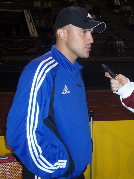 Serbian White Eagles head coach Siniša Ninković in 2007.